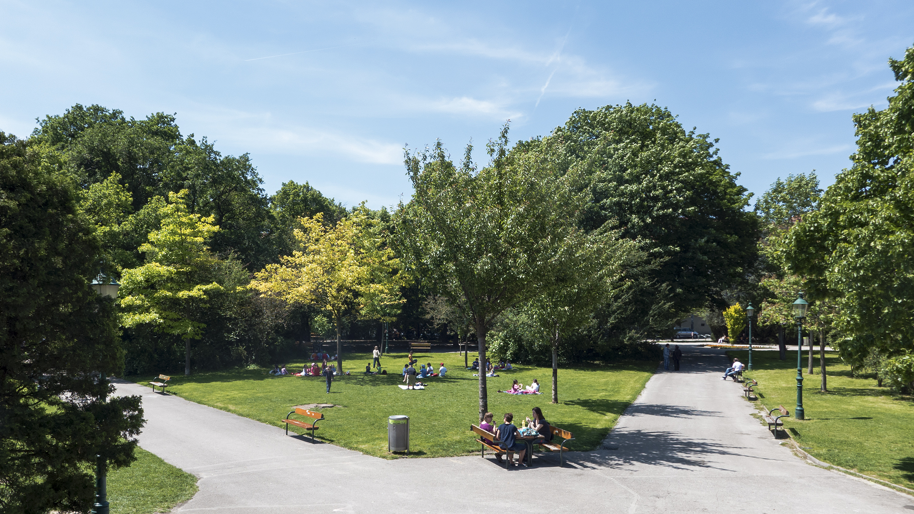 Municipal park Kongresspark in Vienna 16